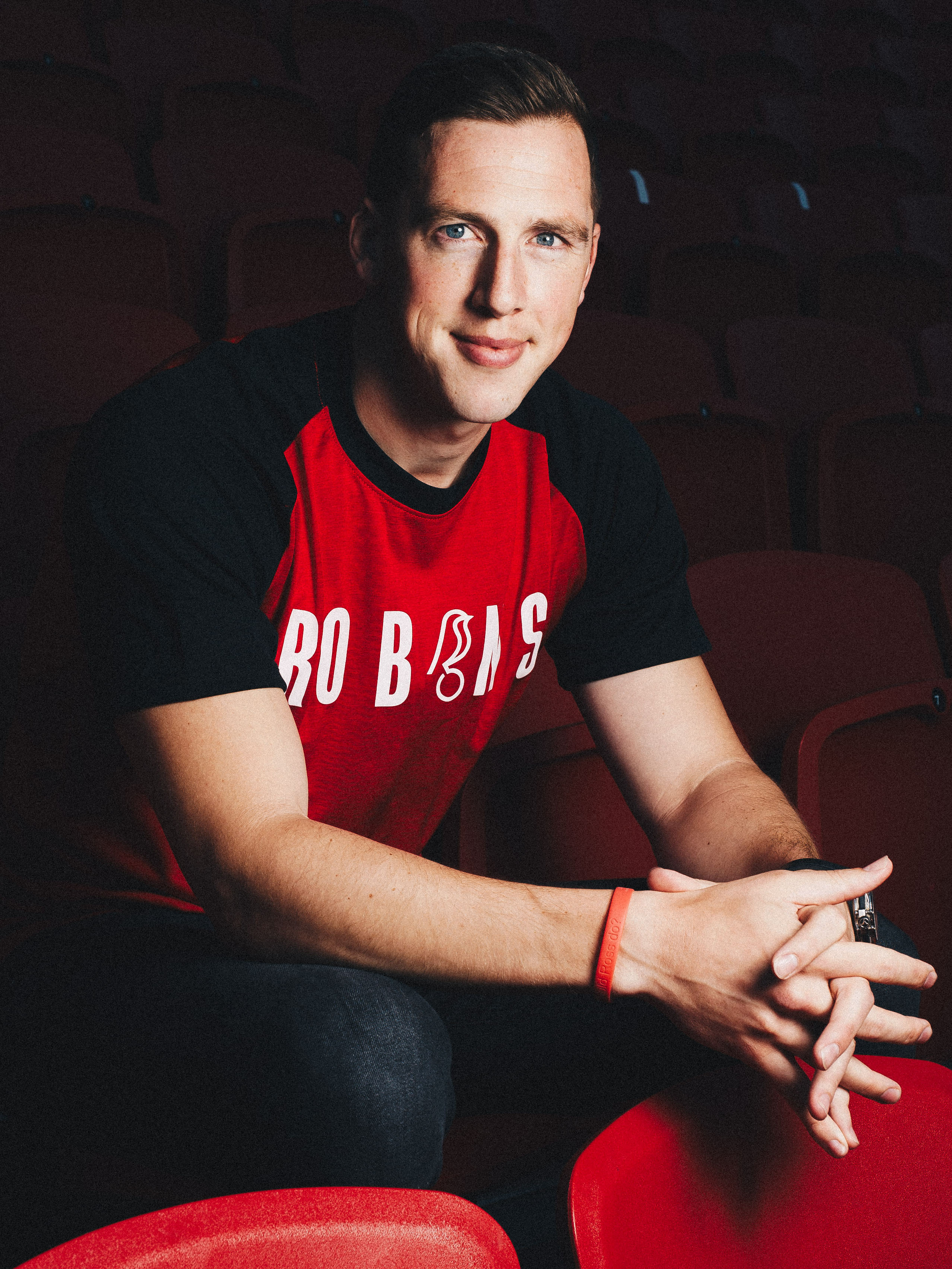 Rene Gilmartin poses at Ashton Gate stadium after signing for Bristol City